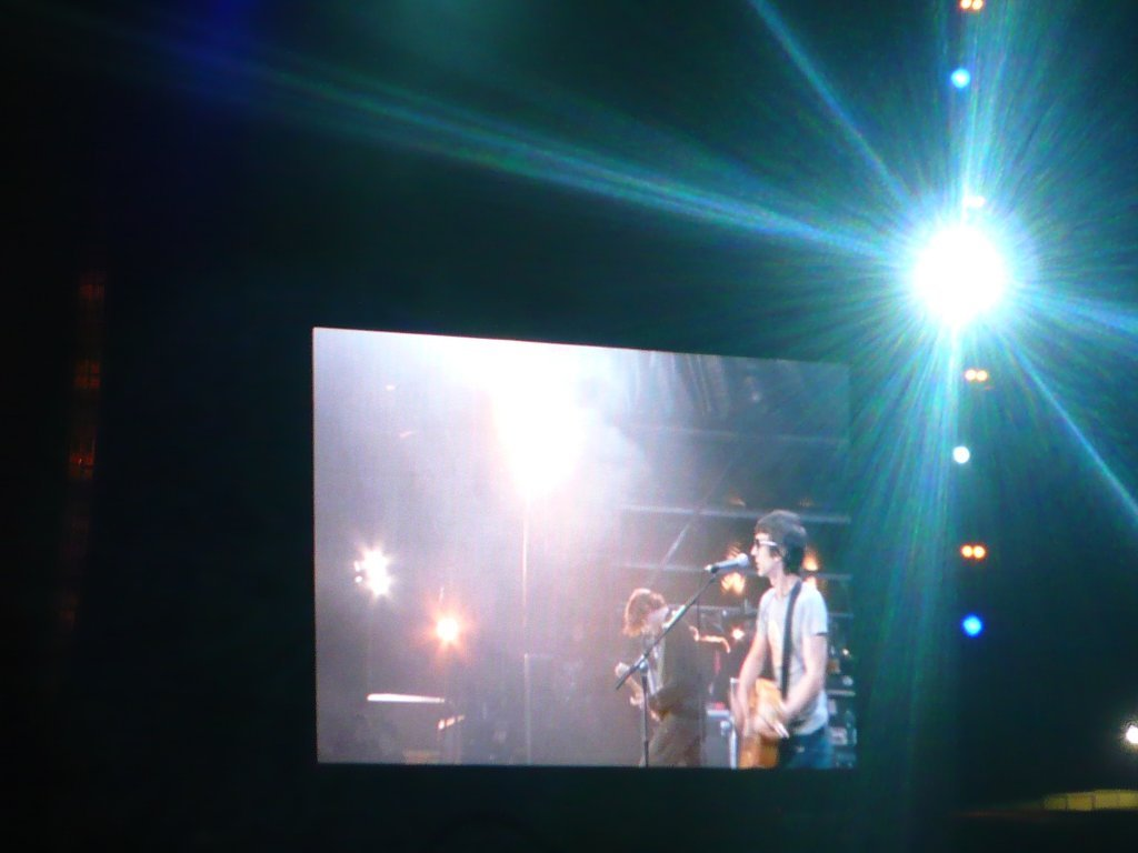 The Verve performing Main Stage at the Oxegen Festival, 2008.